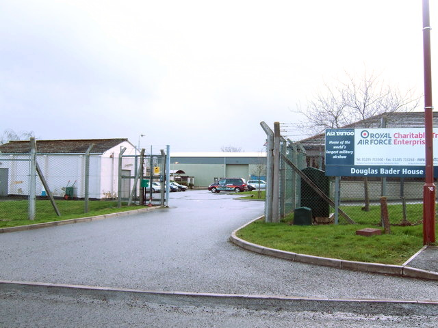 The RAF Charitable Trust's headquarters building at Horcott Hill, Fairford.